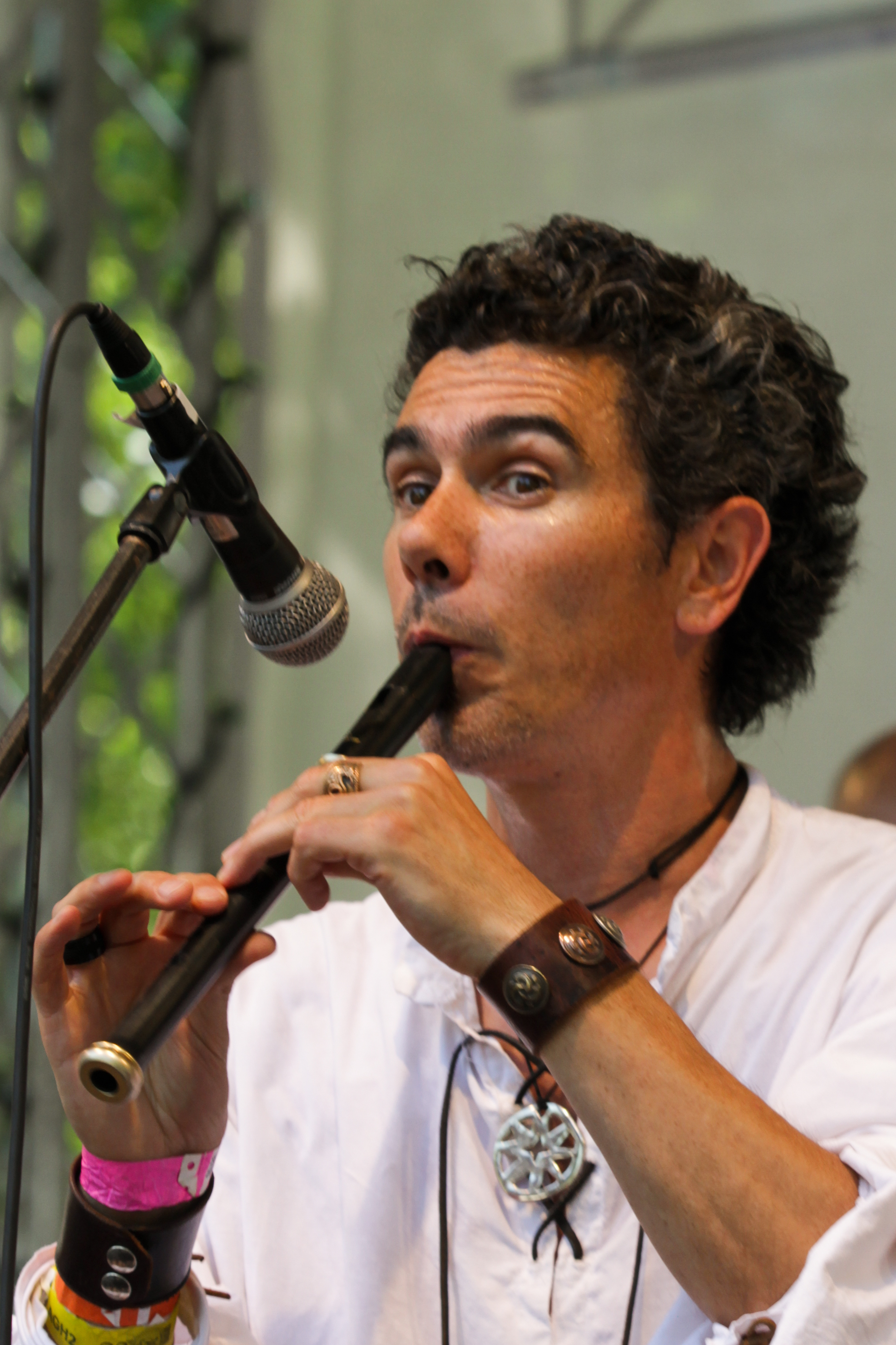 Totus Gaudeo at the Wave-Gotik-Treffen 2014. Totus Gaudeo im Heidnischen Dorf (WGT 2014)